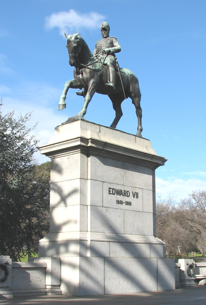 King Edward VII Statue, Queen Victoria Gardens, Melbourne, by Edgar Bertram Mackennal.